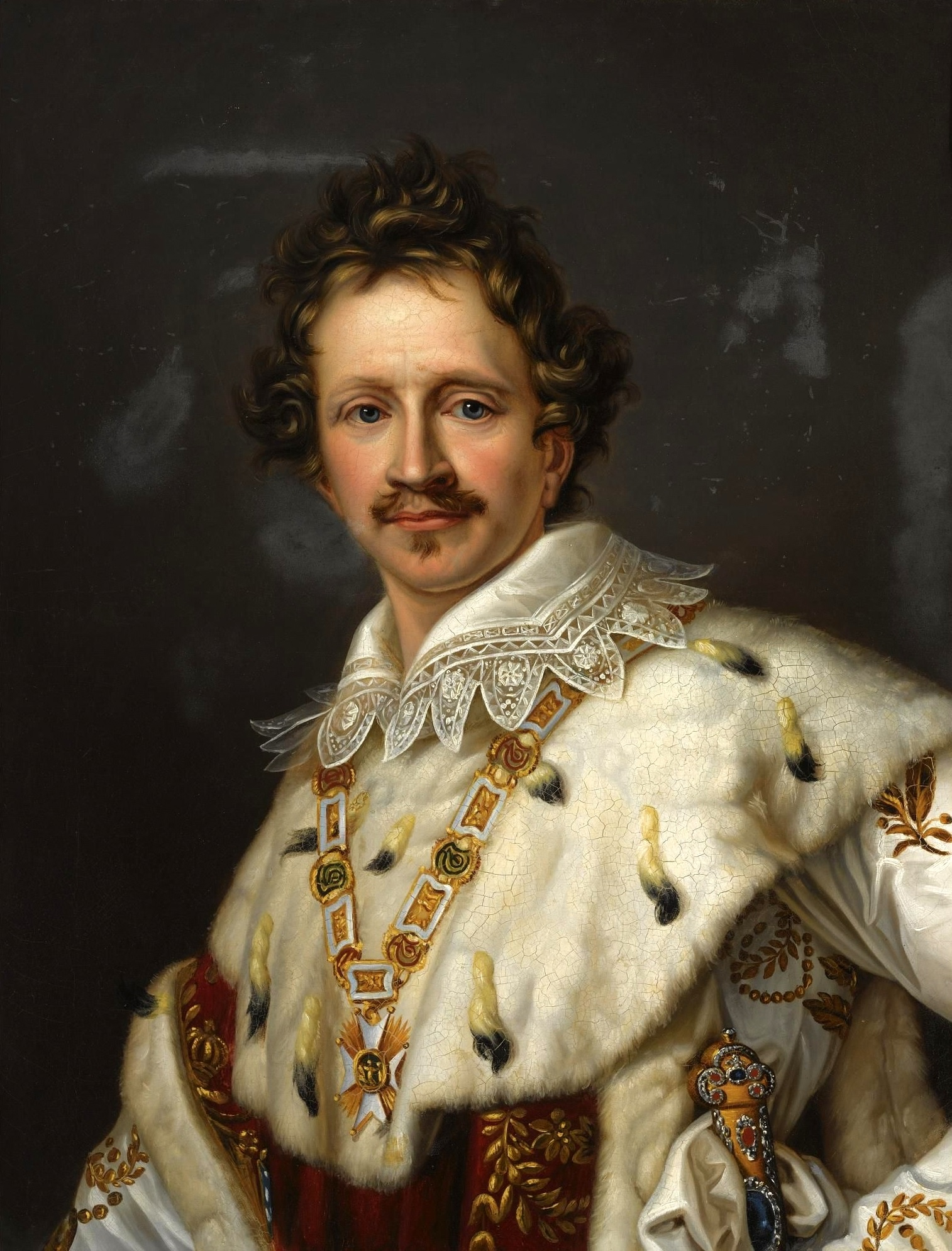 Portrait of King Ludwig I of Bavaria